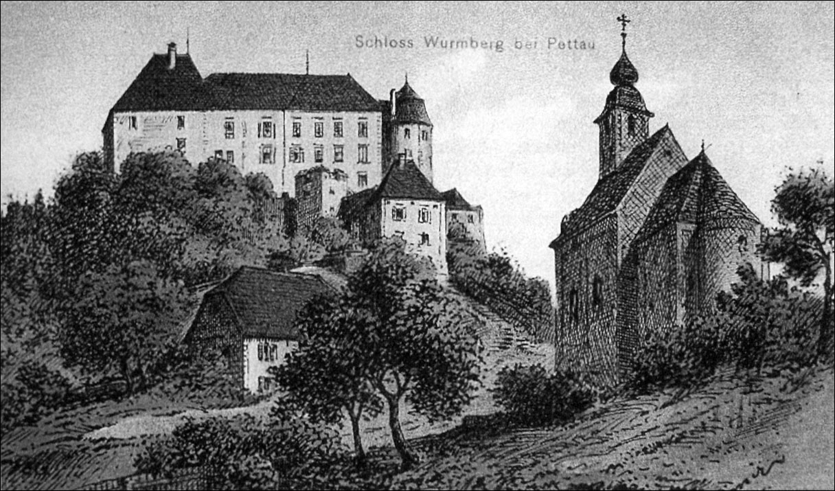 Postcard of Vurberk Castle